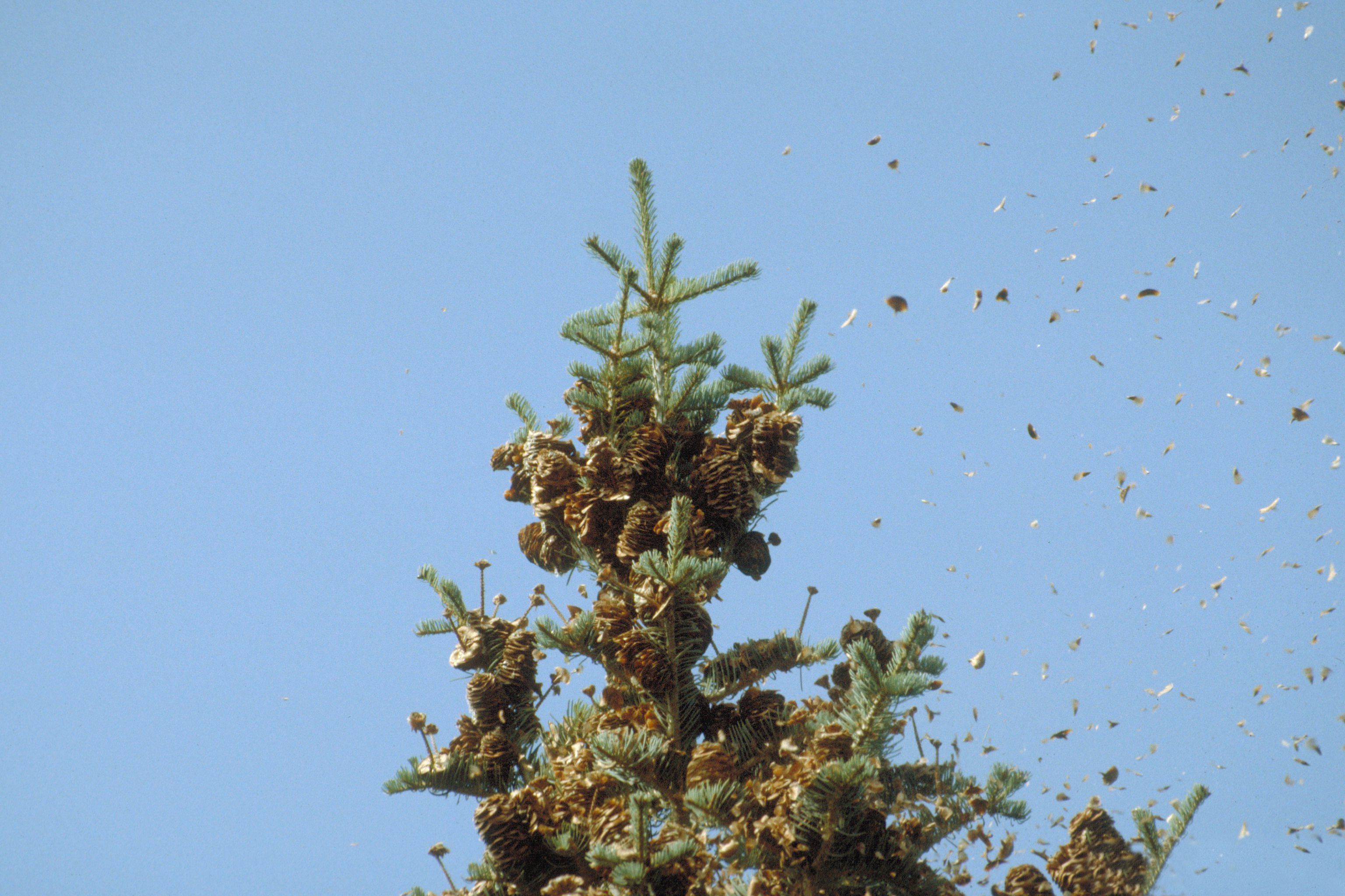 Abies concolor foliage and disintegrating mature cones, showing seed dispersal